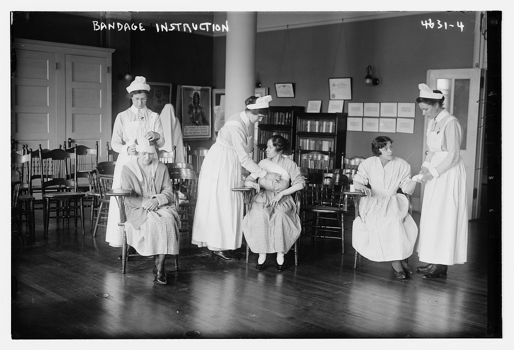 Bain News Service,, publisher. Bandage instruction [between ca. 1915 and ca. 1920] 1 negative : glass ; 5 x 7 in. or smaller. Notes: Title from unverified data provided by the Bain News Service on the negatives or caption cards. Forms part of: George Grantham Bain Collection (Library of Congress). Format: Glass negatives. Repository: Library of Congress, Prints and Photographs Division, Washington, D.C. 20540 USA, General information about the Bain Collection is available at Higher resolution image is available (Persistent URL): Call Number: LC-B2- 4631-4